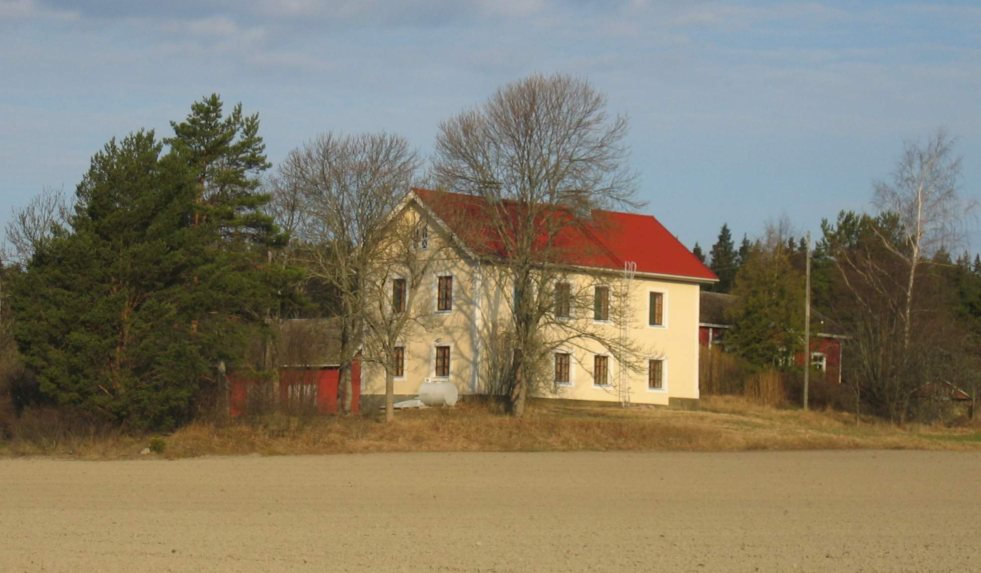 Monnoinen manor in Lemu, Finland. View from the Monnoistentie road.